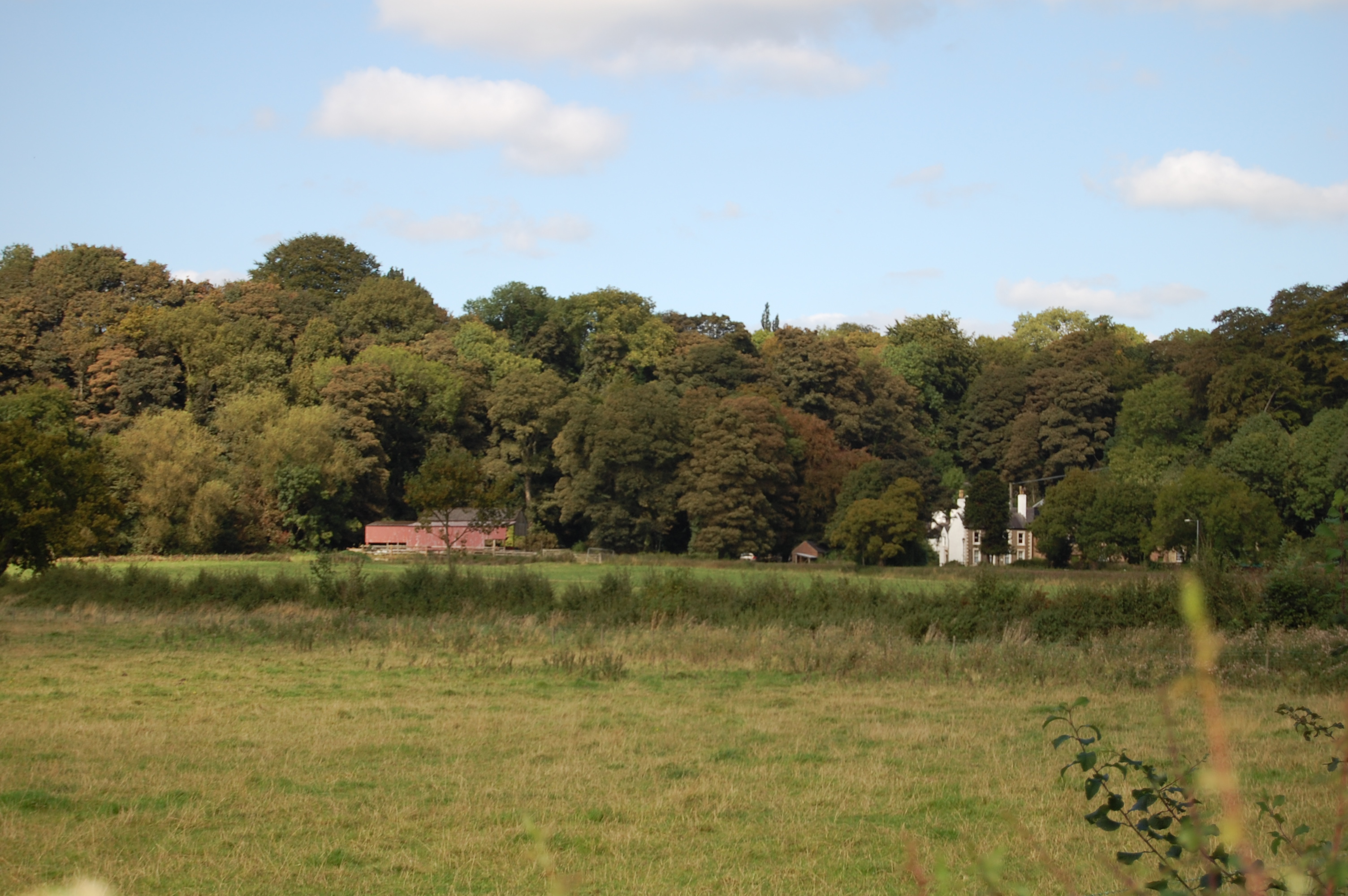 Bredbury and Romiley : Chadkirk Farm